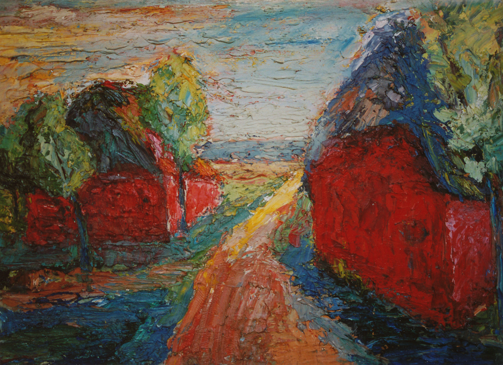 Painting of Amrum by Hella Hirschfelder-Stüve.